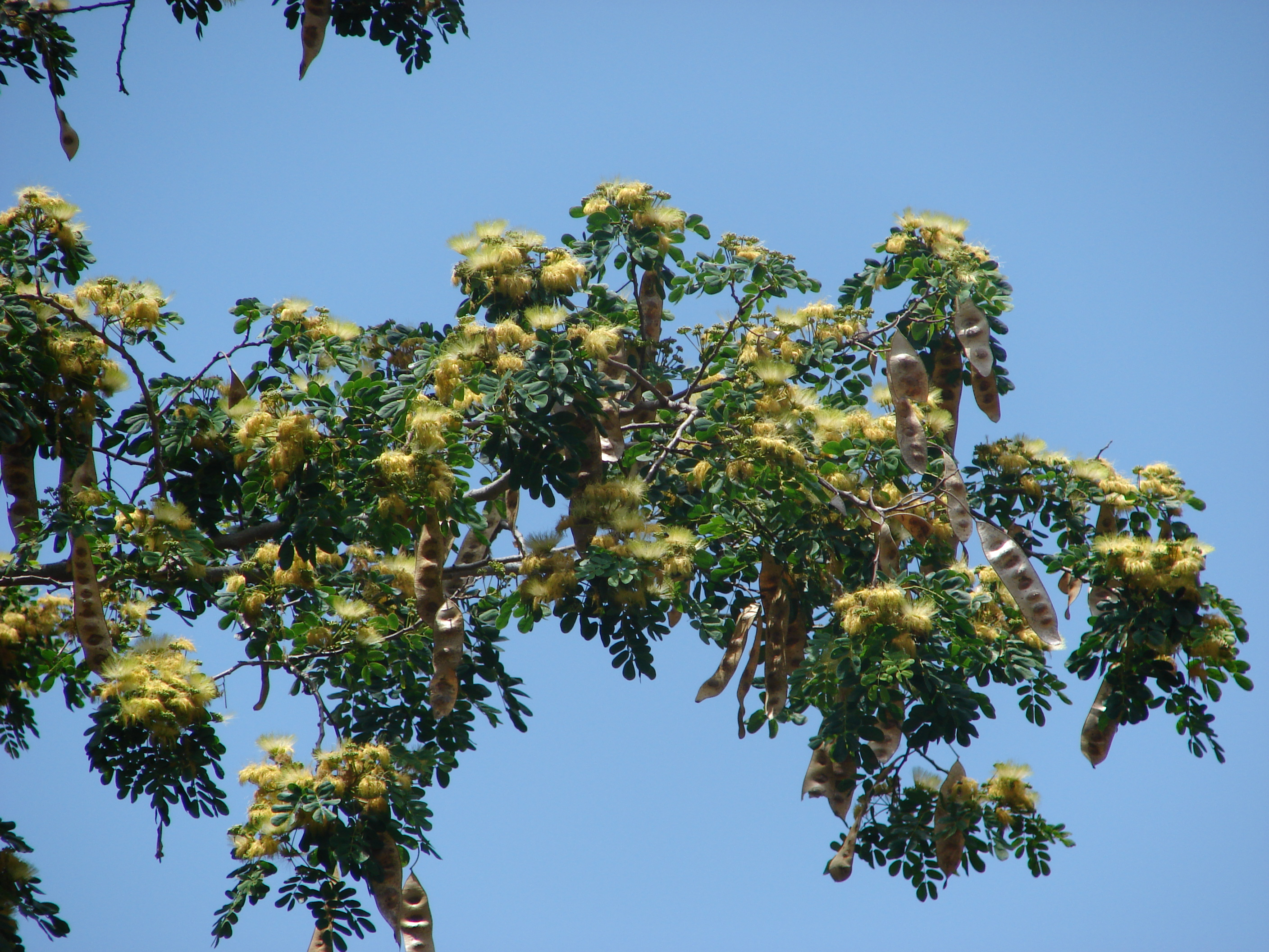 Albizia lebbeck (leaves flowers and seedpods). Location: Midway Atoll, Midway Mall Sand Island